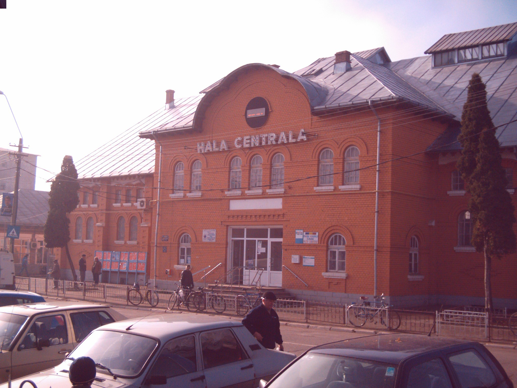 market